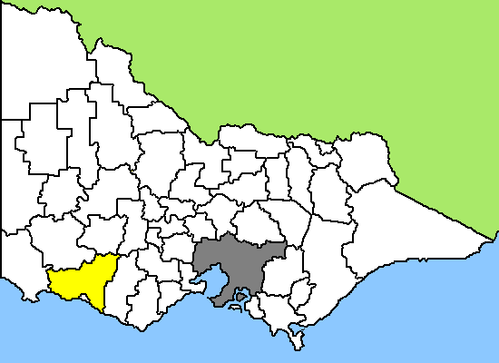 Map of Victoria/Australia, LGA of Moyne Shire highlighted (yellow)